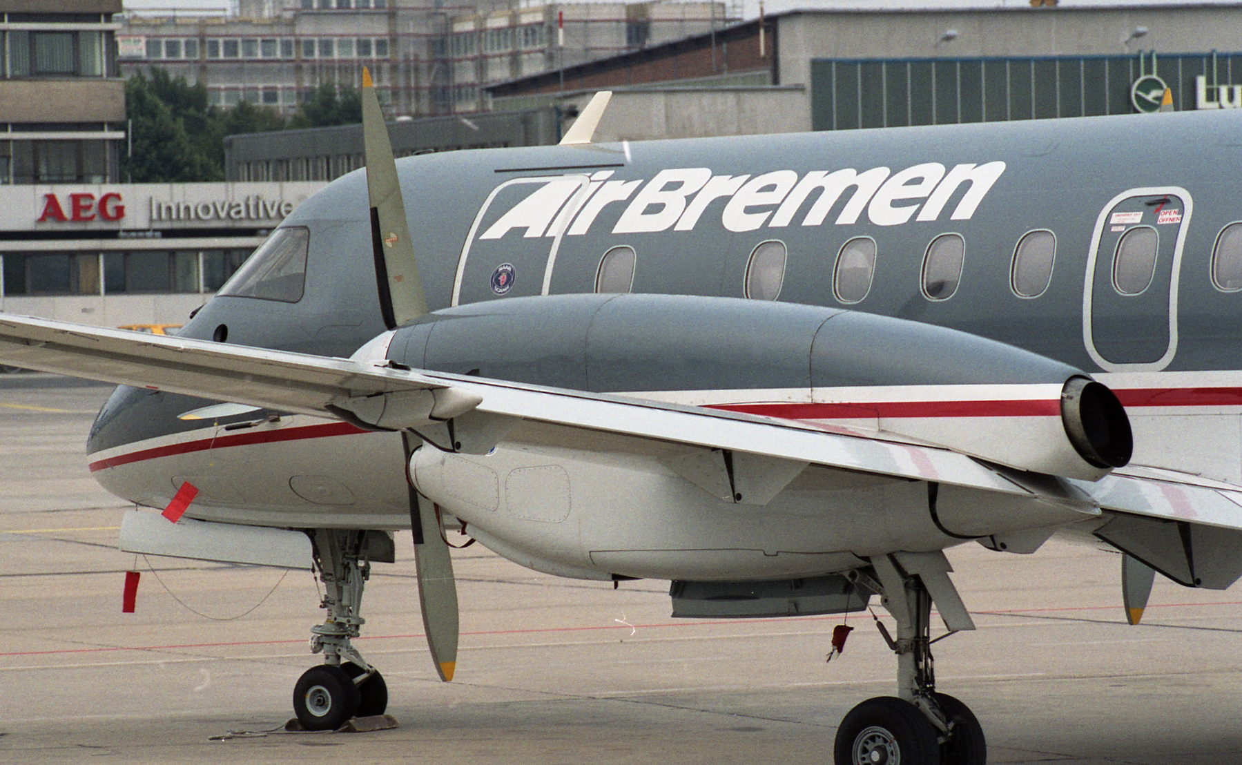 Air Bremen Saab 340 at Bremen Airport